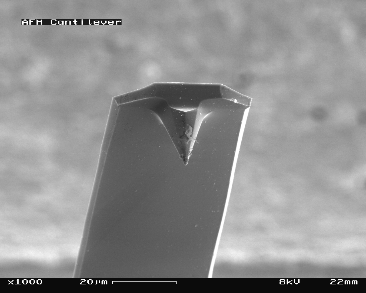 View of cantilever in Atomic Force Microscope (magnification 1000× ; resolution ~ 0.1 μm per pixel)